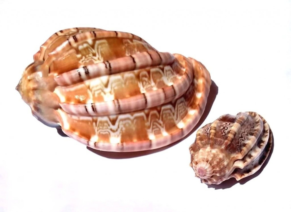 Two shells of marine mollusks of the genus Harpa Röding, 1798[1]. Above the shell of Harpa major Röding, 1798[2]; below the shell of Harpa amouretta Röding, 1798[3]. Both from Indo-Pacific. ABBOTT, R. Tucker; DANCE, S. Peter (1982). Compendium of Seashells. A color Guide to More than 4.200 of the World's Marine Shells. New York: E. P. Dutton. p. 211. 412 pp.